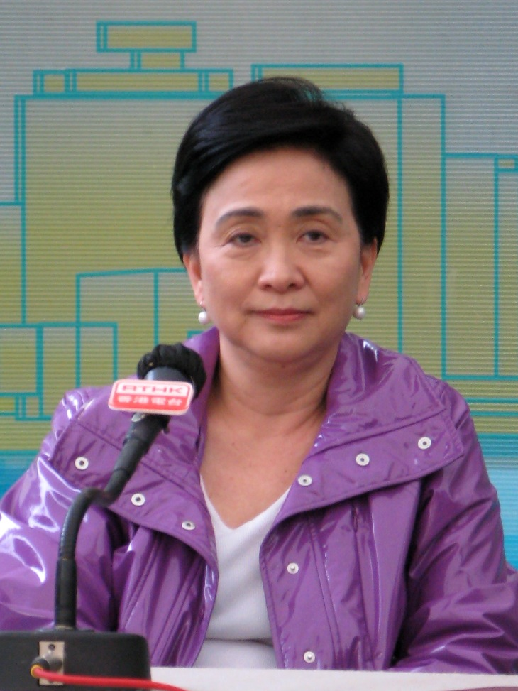 Emily Lau, member of Legislative Council.